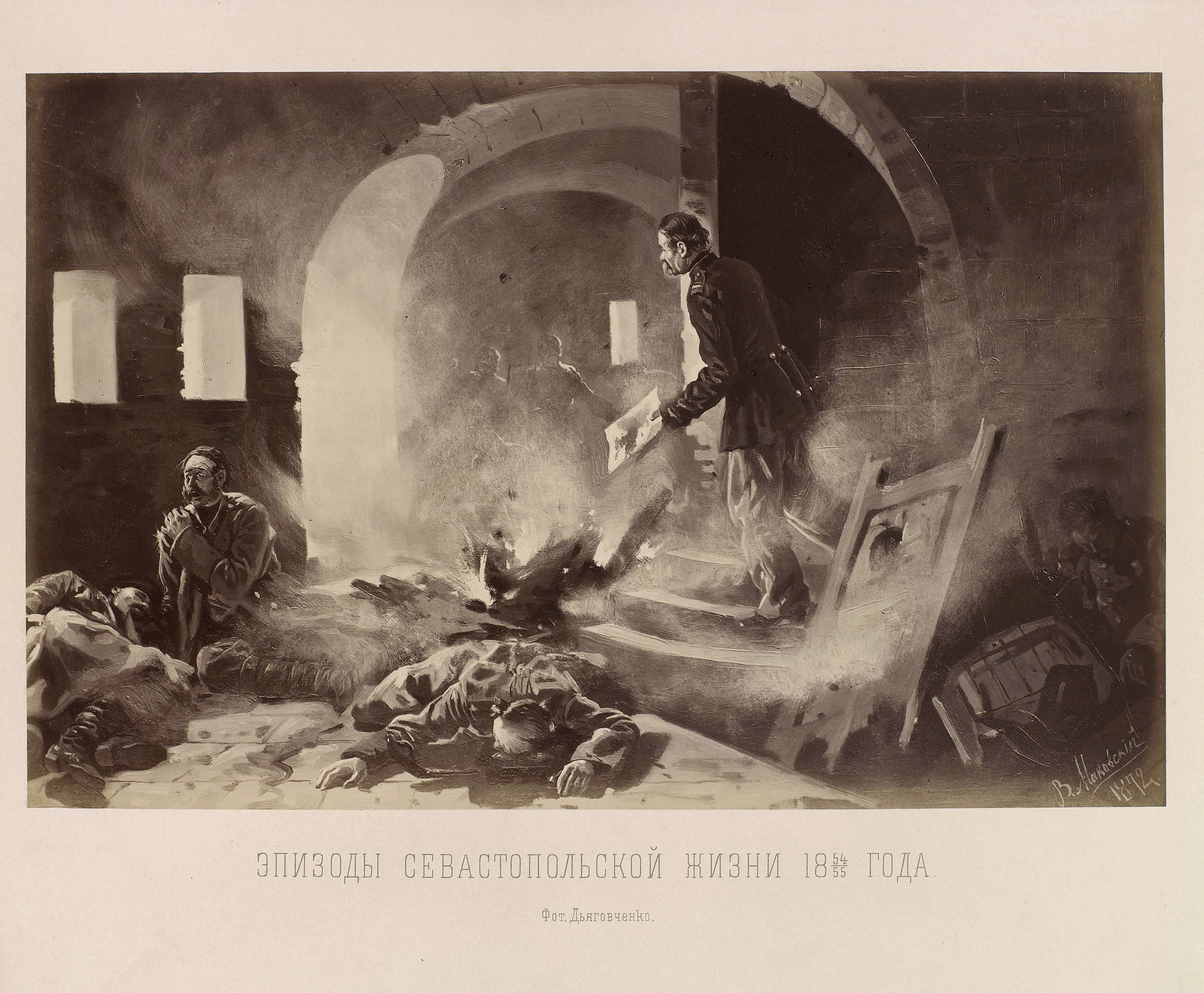 Scene in the Malakoff tower during the second bombardment Part of an album of paintings showing scenes from the siege of Sevastopol 1854-55 and exposed at the 1872 Moscow Polytechnic Exhibition